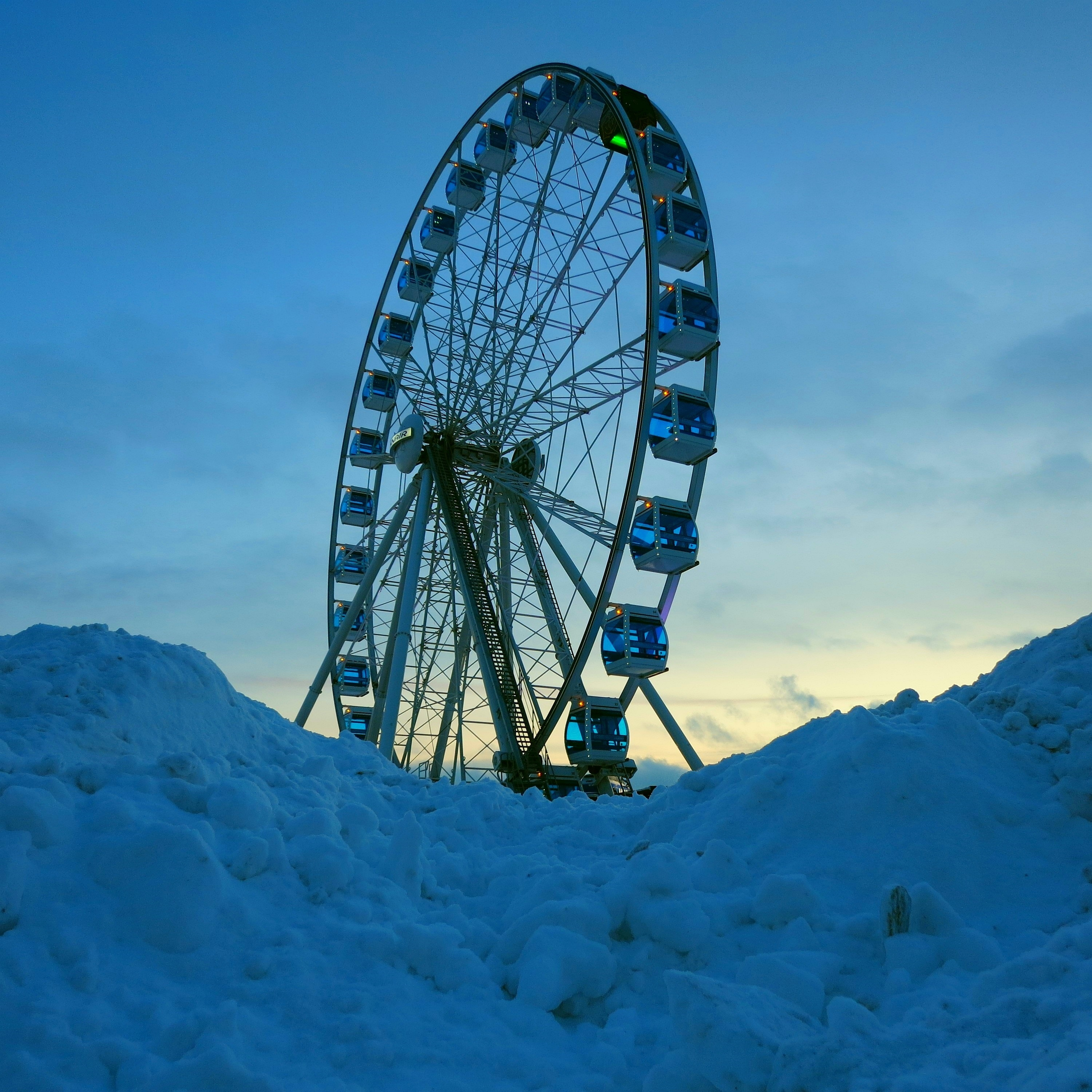 Finnair SkyWheel in Helsinki (Finland) is open all year round. The height of it is about 40 m and it was opened in June 2014.